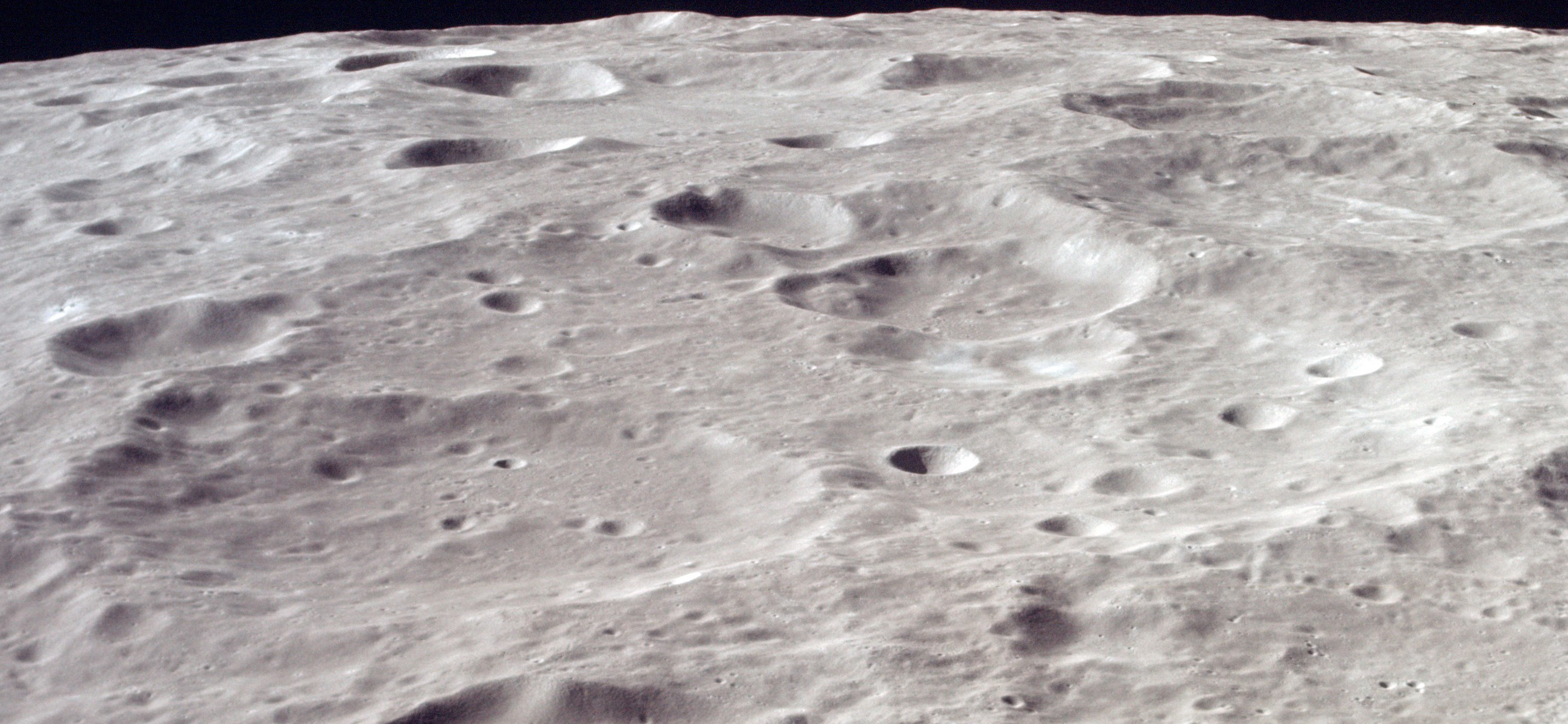 Oblique view facing northeast of Buisson, on the far side of the moon. Buisson itself is in lower left. The larger crater spanning the image is Buisson Z. Buisson X and Y are right of center, and Buisson V is above left of Buisson. Firsov and Firsov K are in upper right, and Firsov S is in central background.